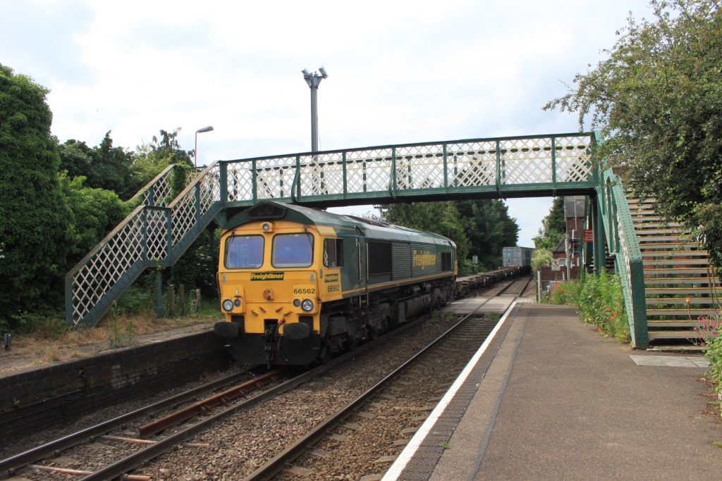 Freightliner's 66565 takes its container train onto the branch line at Trimley to reach the Port of Felixstowe North Terminal.